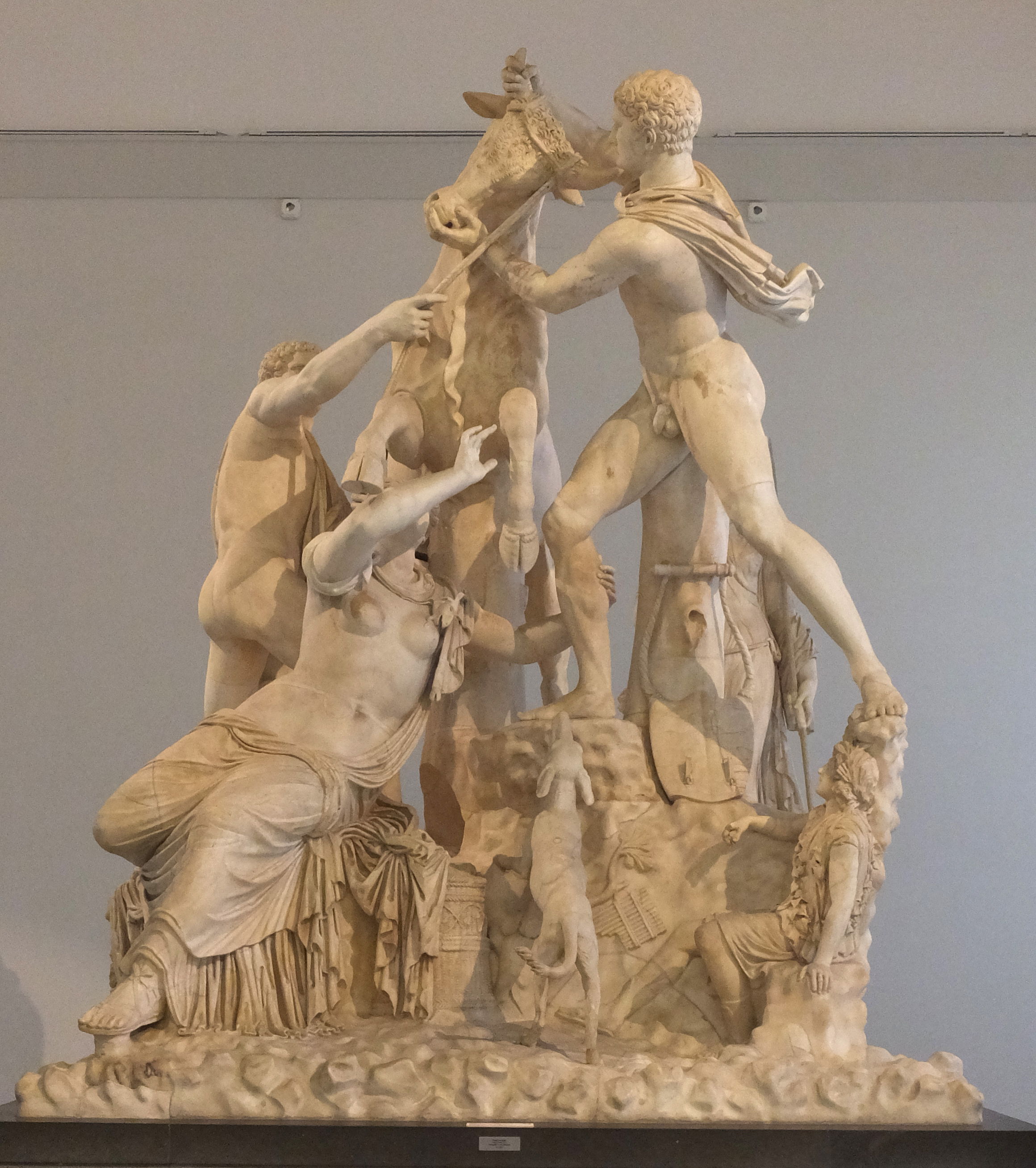 The Farnese Bull depicting the punishment of Dirke. Amphion and Zethos tie Dirke to a bull as punishment for her treatment of their mother, namely that she treated the mother, Antiope, as a slave and wanted to kill her after she escaped. The sculpture is said to be the second century BCE original sculpted by Apollonius of Tralles and his brother, Tauriscus, but arguments have been made that it is instead a copy from the late second century CE. In either case, since it was excavated in the 16th century, the statue has been restored on a number of occasions that are documented on the wall of the gallery nearby. Inventory Number 6002